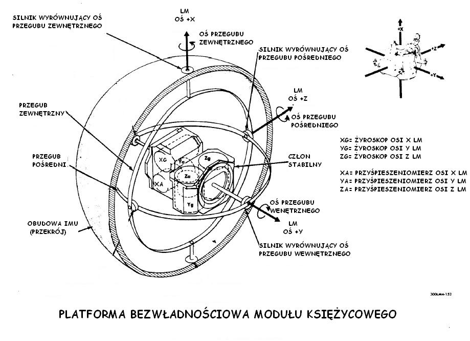 Apollo Lunar module inertial measurement unit